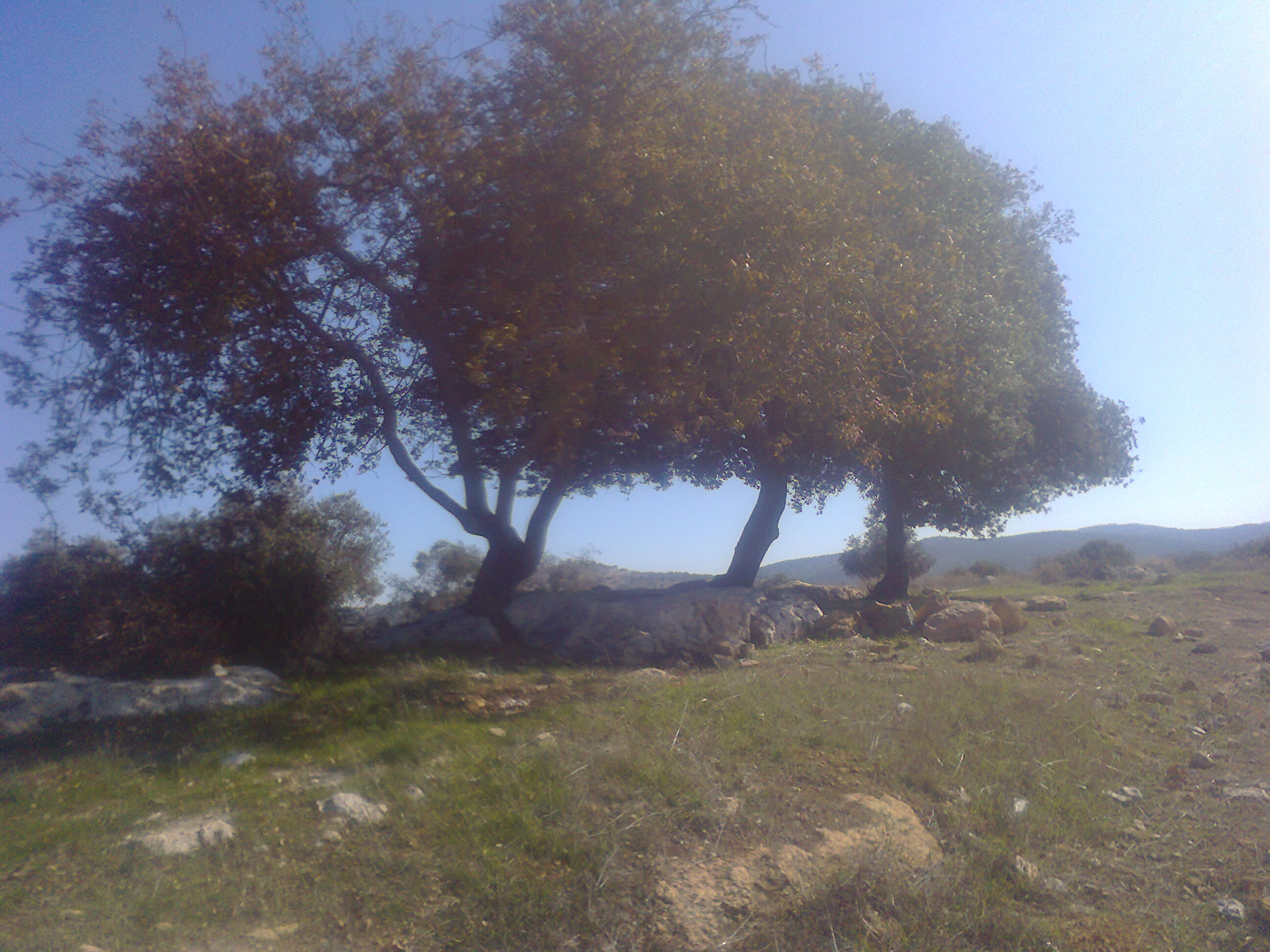 Zubiya, Irbid, Jordan